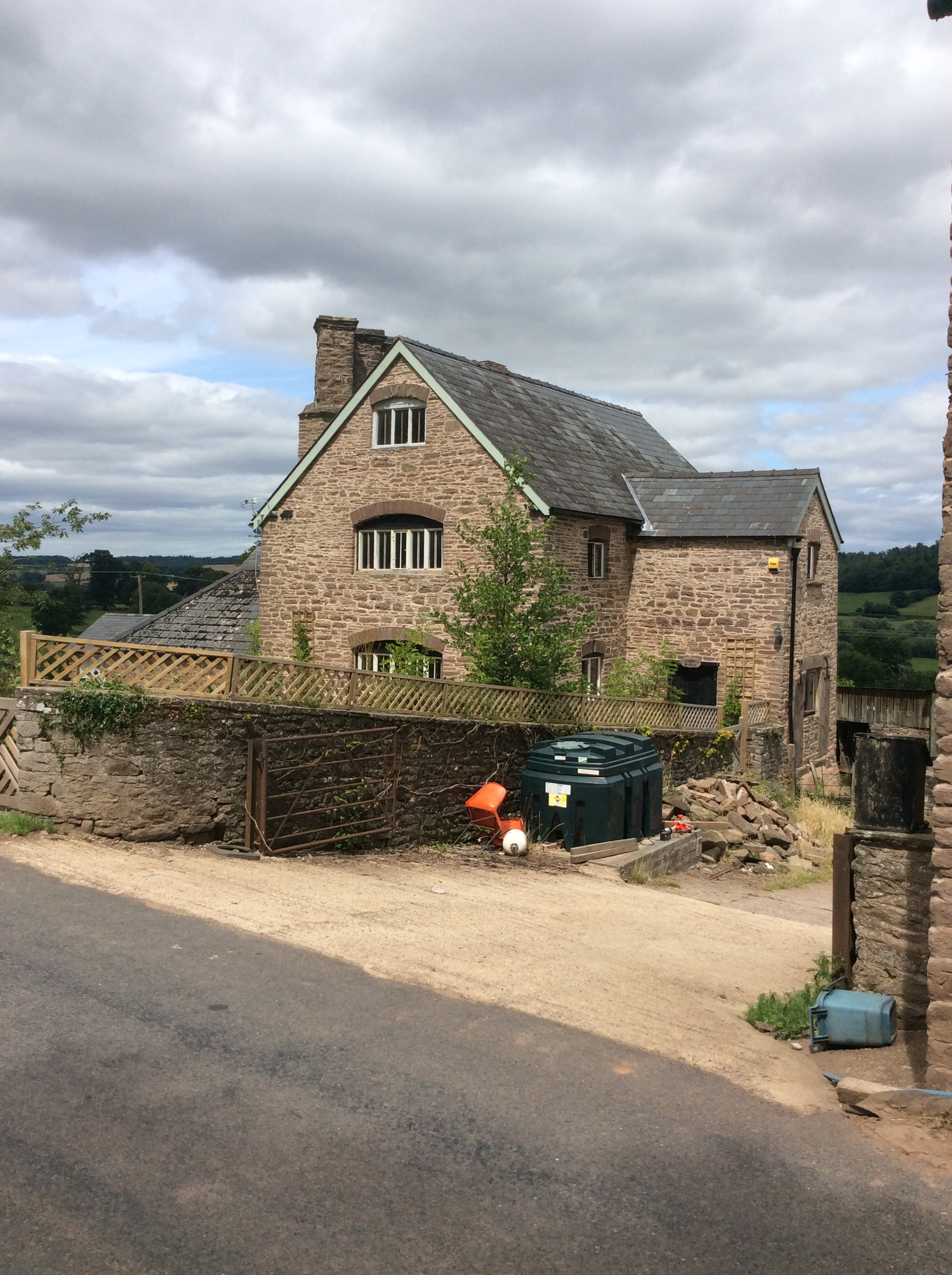 Upper Duffryn House, Grosmont, Monmouthshire